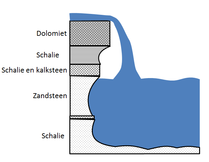 Cross section of Niagara Falls